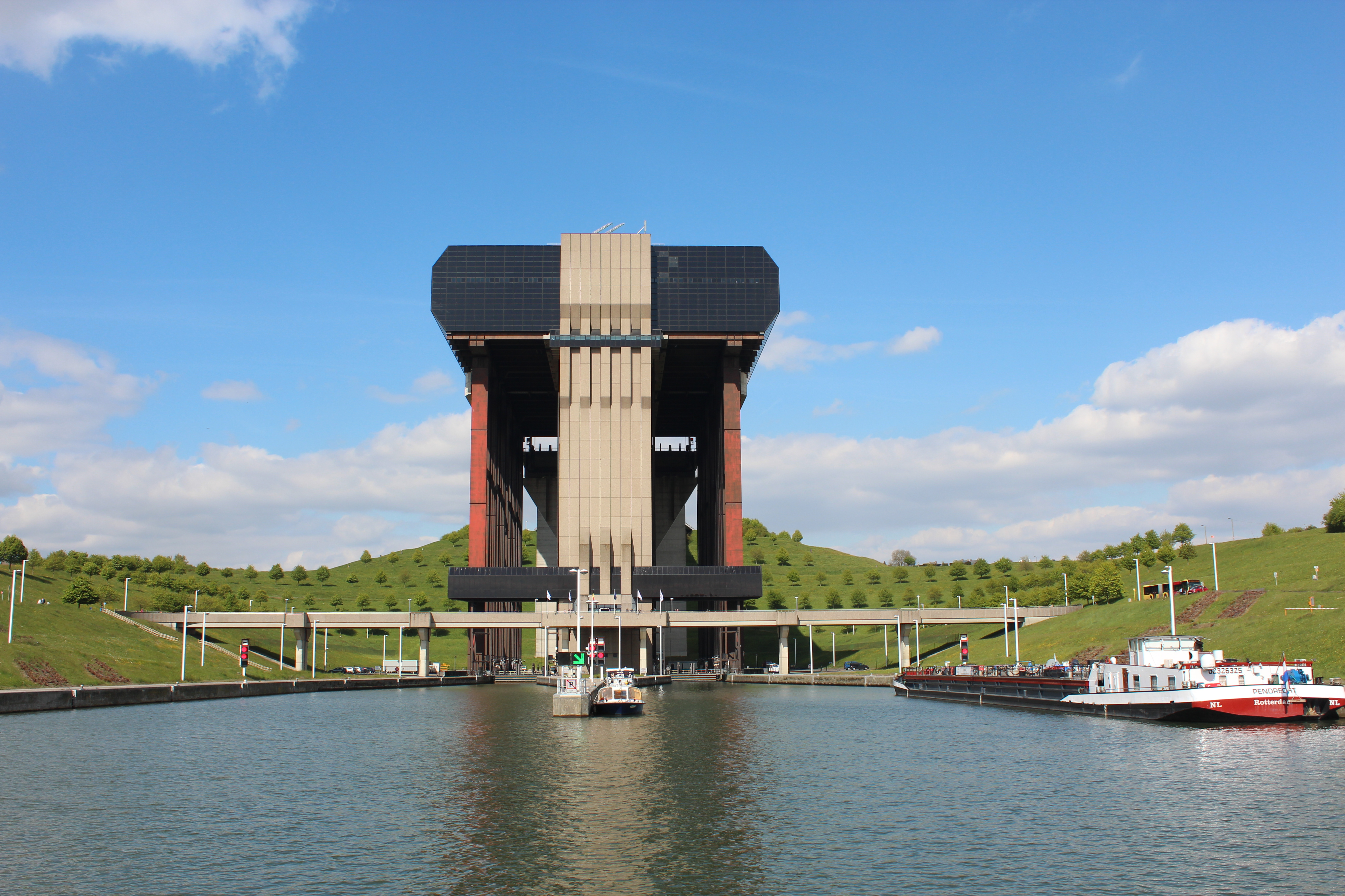 Strépy-Thieu boat lift